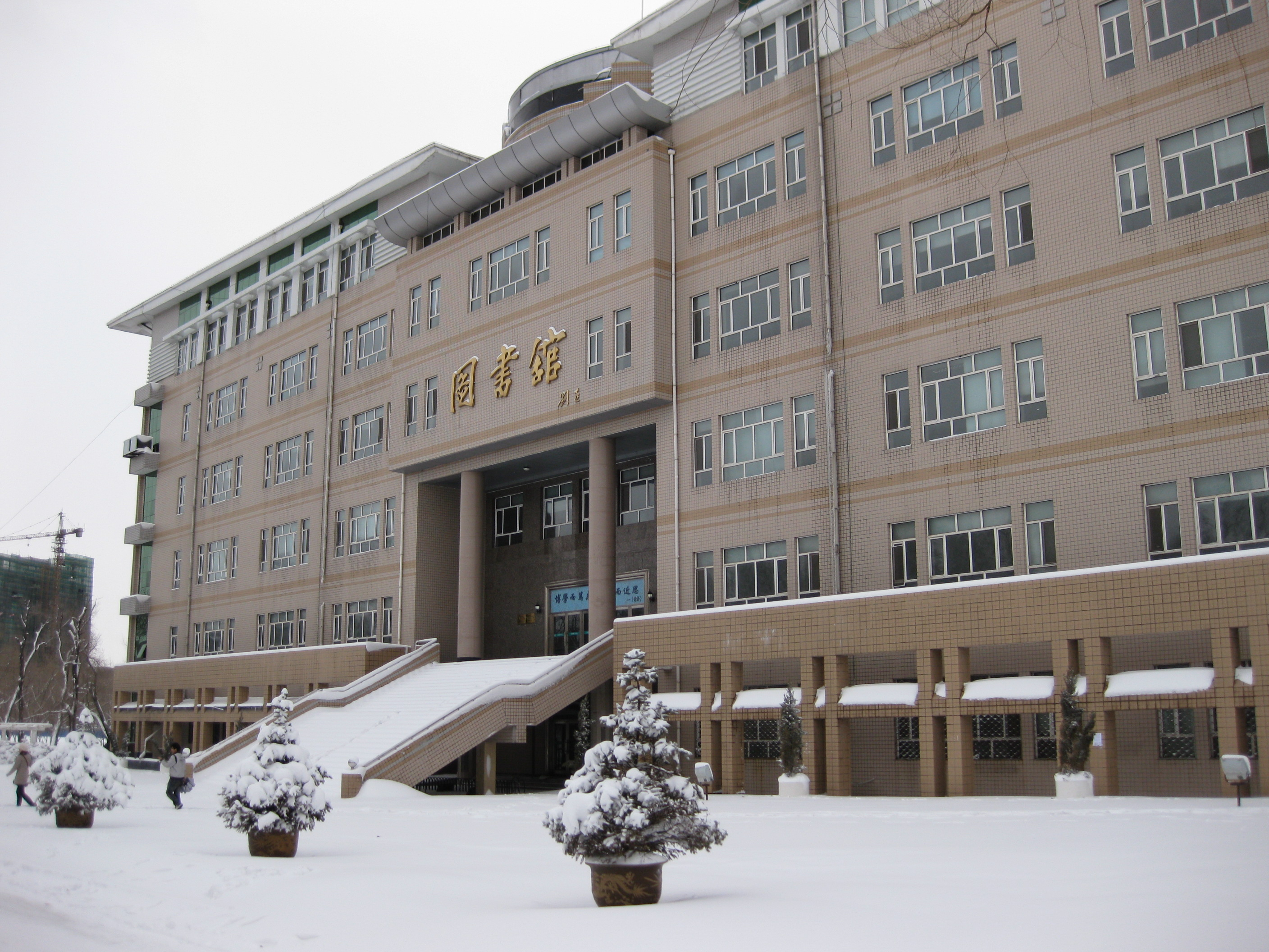 The Library of Northeast Forestry University